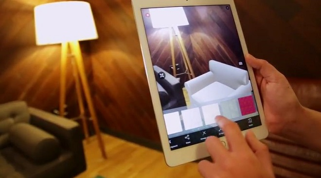 Augment SDK offers brands and retailers the capability to personalize their customer’s shopping experience by embedding AR product visualization into their existing eCommerce and mobile commerce platforms.